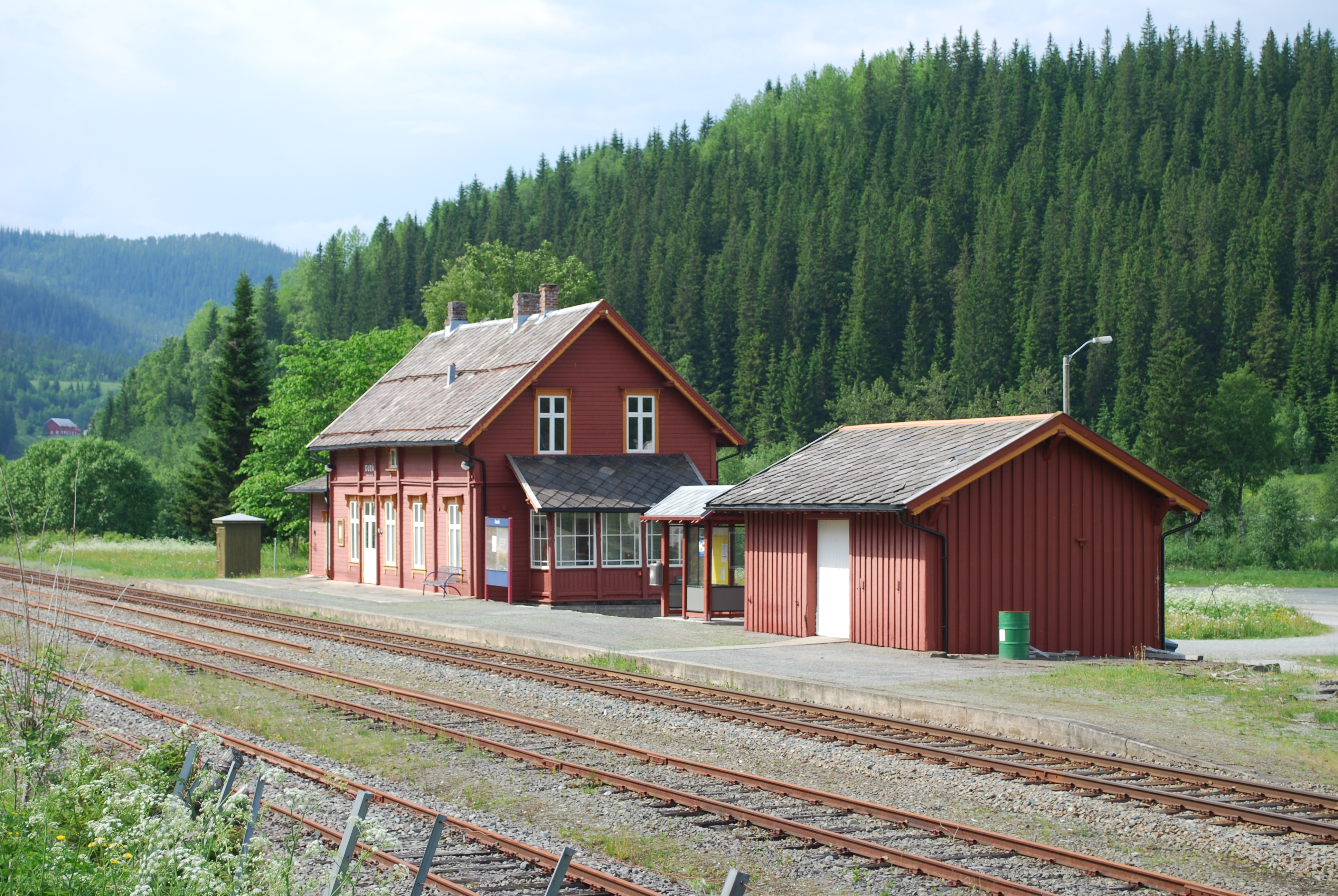 Gudå train station in Meråker, Nord-Trøndelag, Norway.